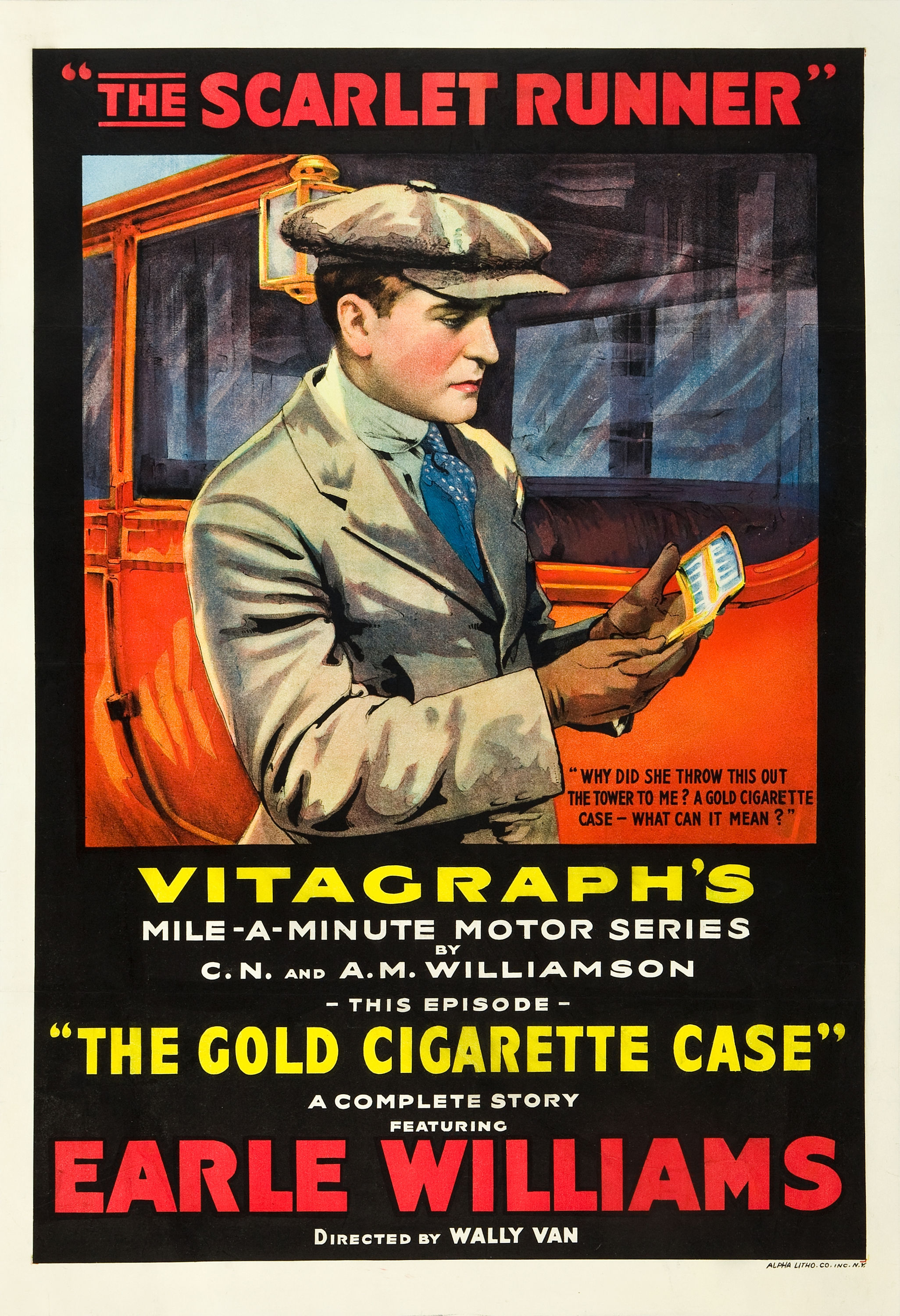 Stone litho poster for The Scarlet Runner film serial episode 'The Gold Cigarette Case'.